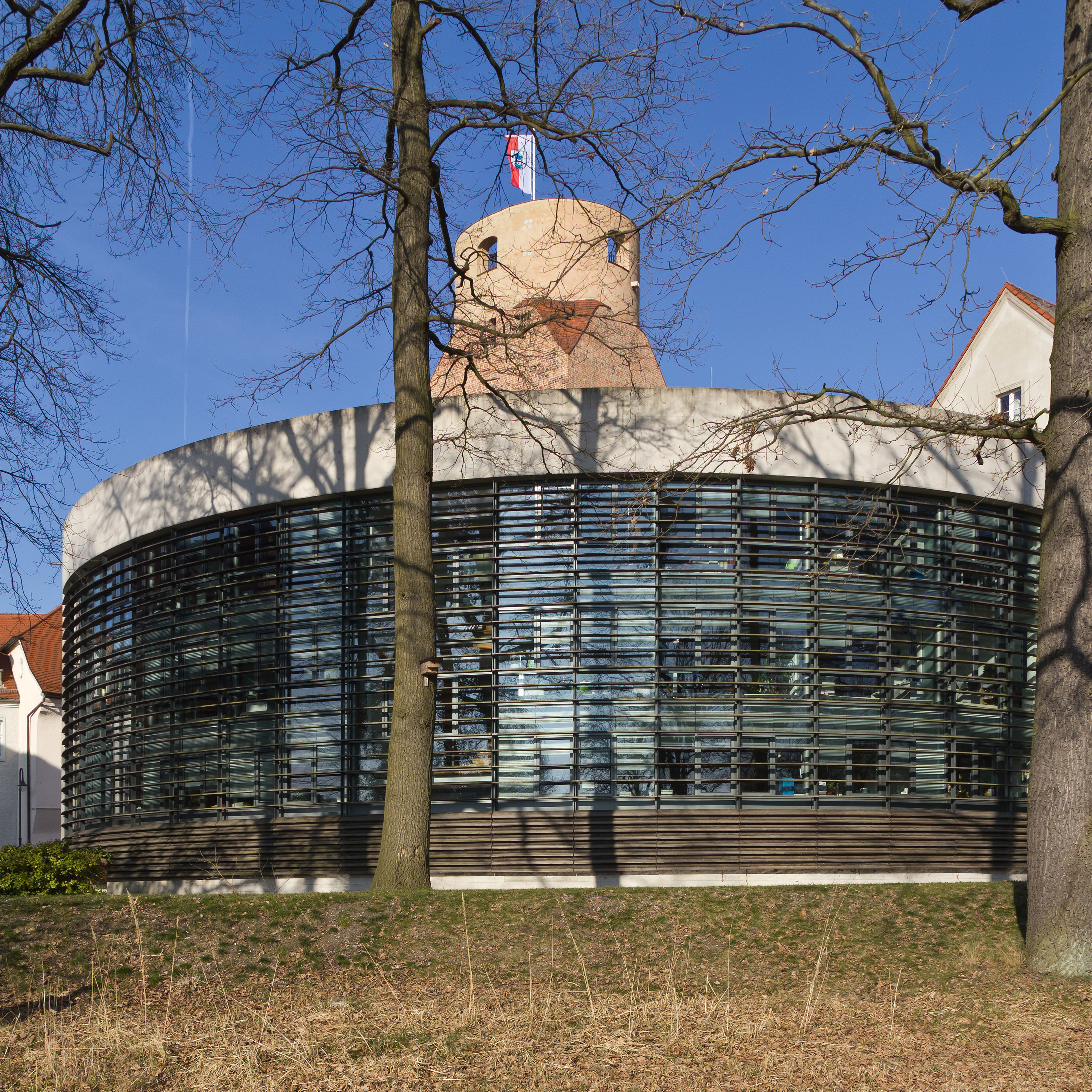 New courthouse in Bad Liebenwerda, Brandenburg, Germany